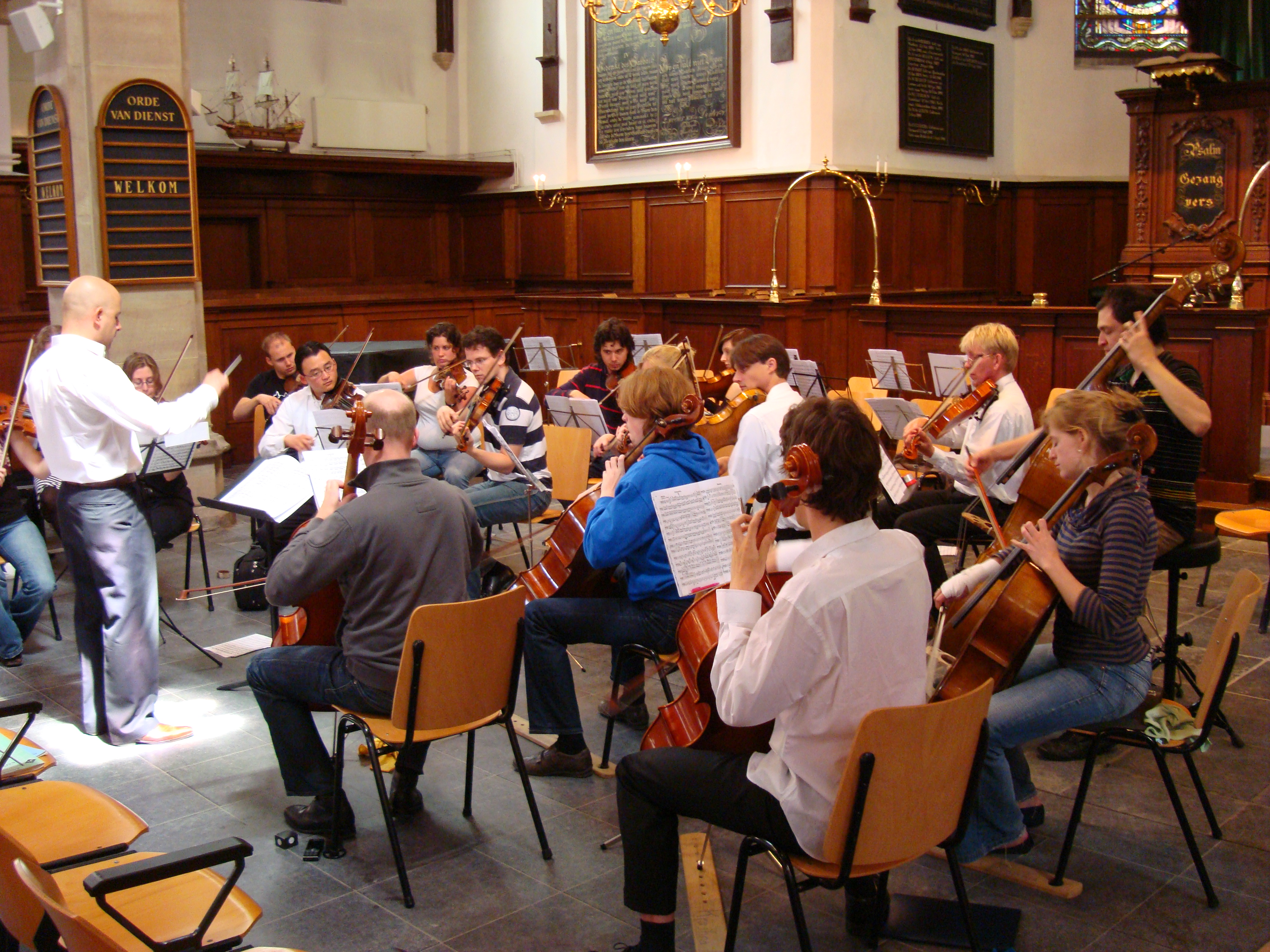 Krashna Chamber Orchestra 2008 Dress Rehearsal